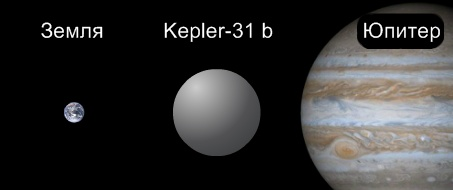 Comparative sizes of Earth, Kepler-31 b and Jupiter.